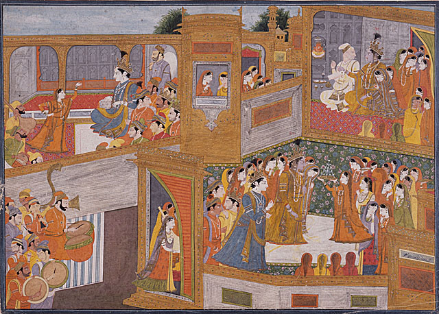 Marriage of Krishna and Rukmini. Painting; Watercolor, Opaque watercolor and gold on paper, Image: 13 1/2 x 19 in. (34.29 x 48.26 cm) Made in: India, Himachal Pradesh, Guler